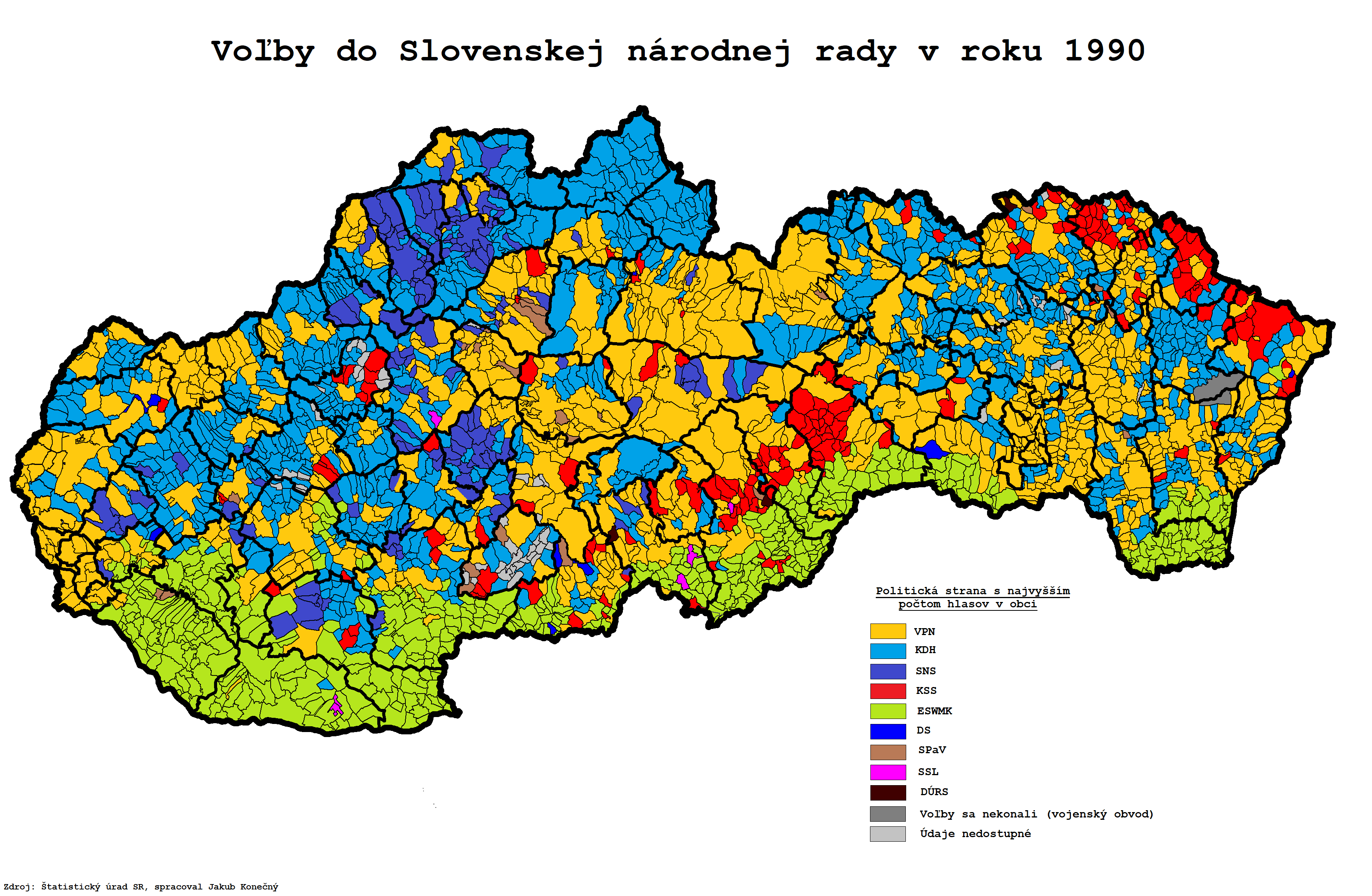 The results of the election to the Slovak National Council in 1990 at the municipalities level. The colour of the village indicates the strongest party in each of them.